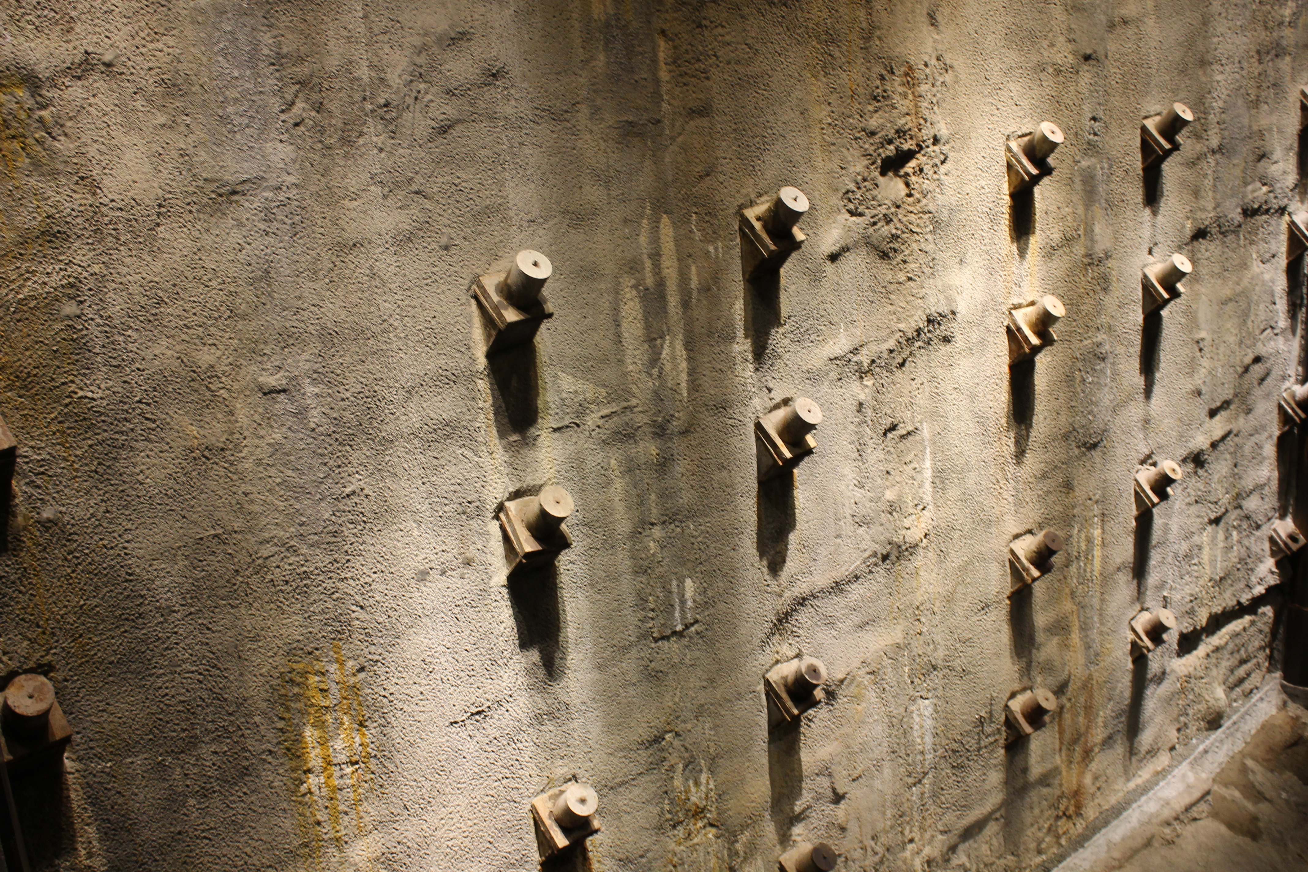 The "Bathtub" wall of the old Twin Towers at 9-11 Memorial in NYC